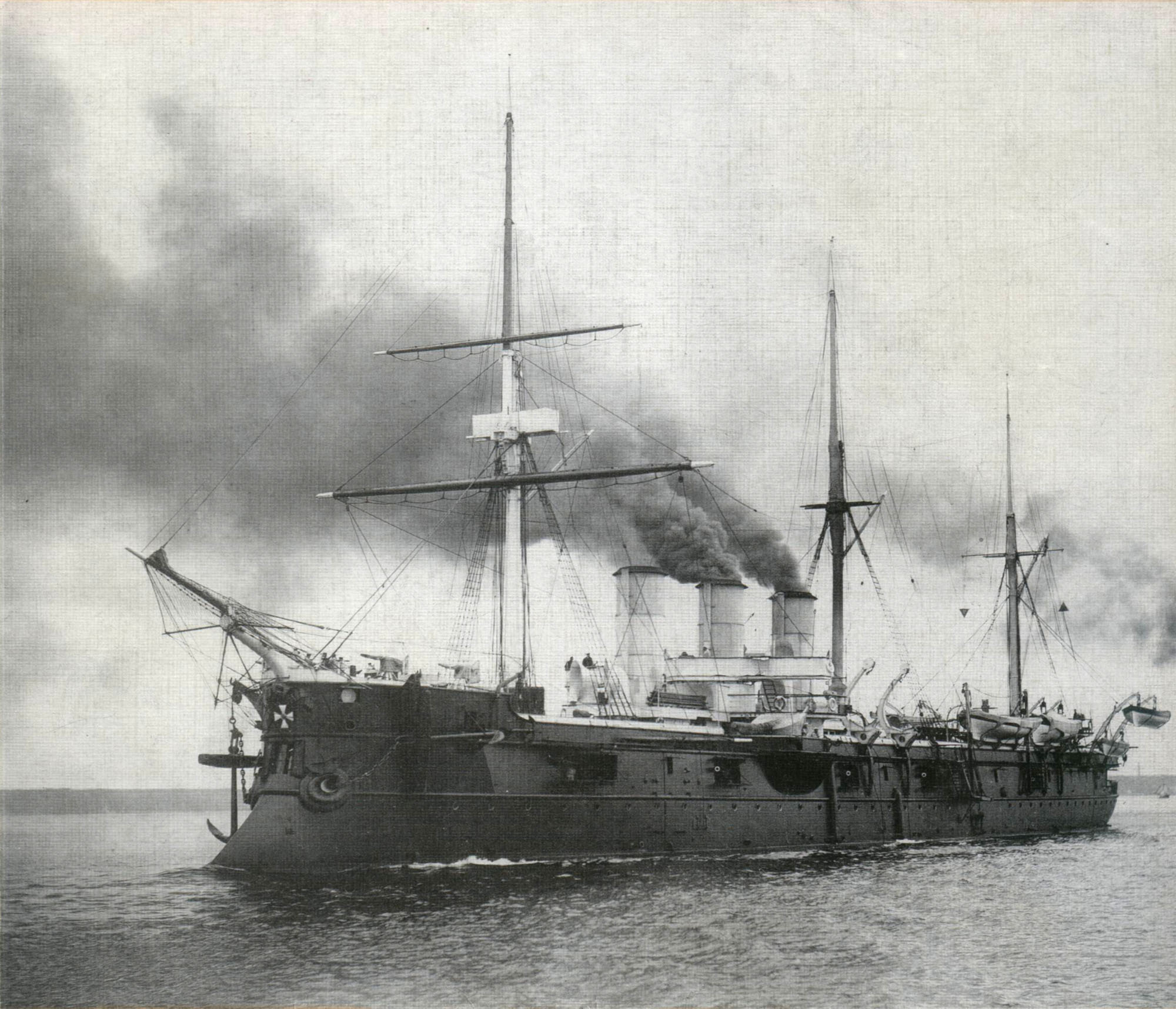 Imperial Russian cruiser Pamyat' Azova, 1902.